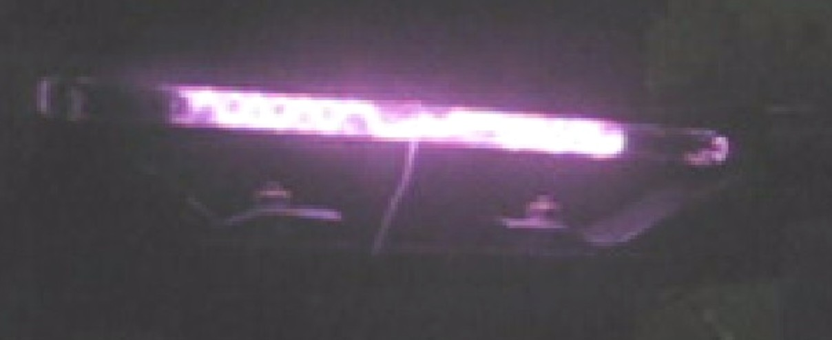 This photo shows a 30 joule flash discharged in 3.5 microseconds, using external triggering. The system is at 1/3 power, (maximum safe operating energy is 90 joules), and the camera is behind a shade 10 welding filter. With such a short duration, electrical wattage is 8.5 million. With external triggering at such high speeds, the arc does not have time to move away from the glass before the full amp load passes through. The arc does not have time to fully heat the xenon and fill the entire tube[1], and maintains following the trigger wire closely. This tube showed serious signs of wall ablation after just a single shot. The current density was much higher than hoped for, and produced a bluish flash, and the arc looked very green to the human eye through a welding lens. It appears purple in the photo because the camera does a much better job of imaging the large amounts of near-infrared light than the eye.[2][3] The arc length is 150mm, and bore diameter is 10mm.